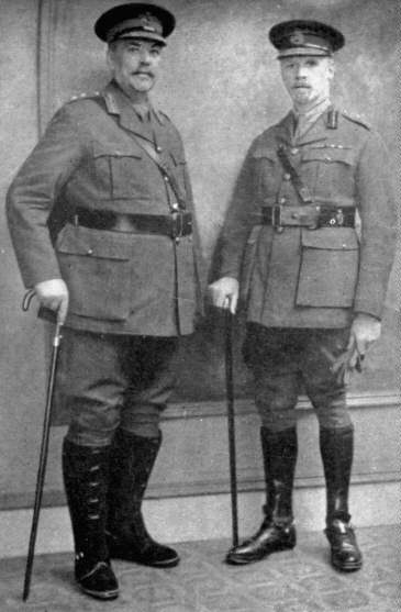 Louis Botha (left) and Jan Smuts (right) in military uniform, 1917.